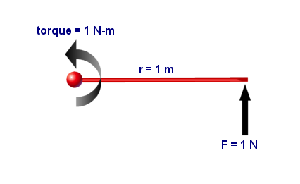 A visual image of how 1 Newton-metre of torque is produced. (Vectors are not included in this diagram)